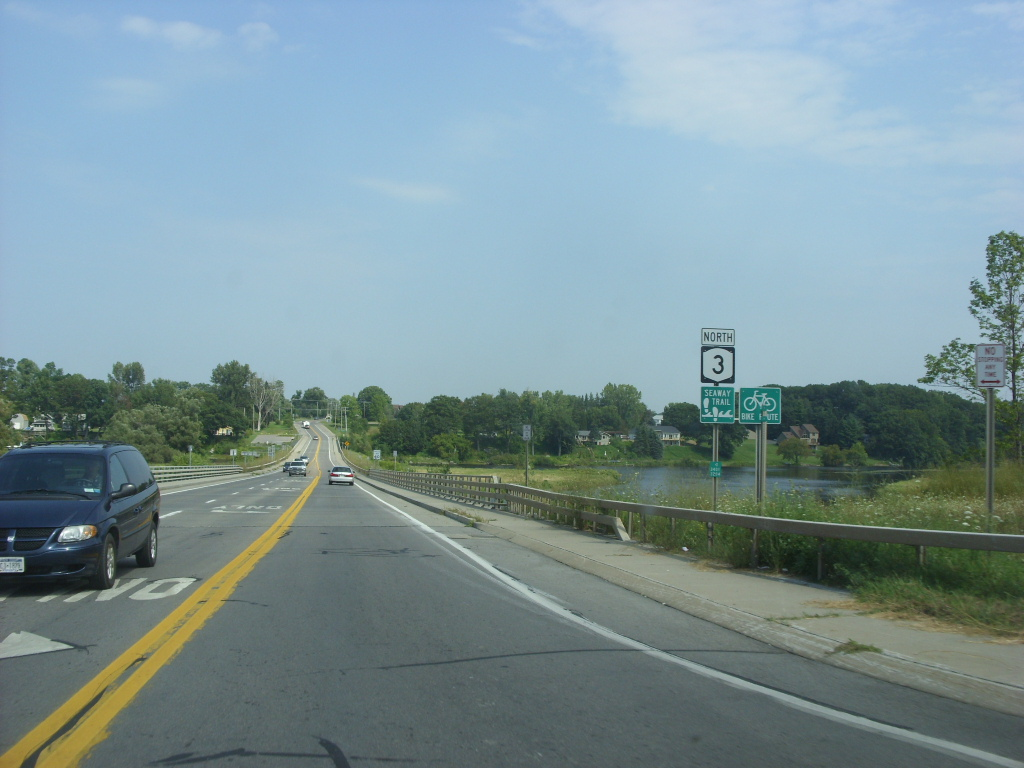 Northbound on New York State Route 3 just north of New York State Route 13 west of Pulaski.